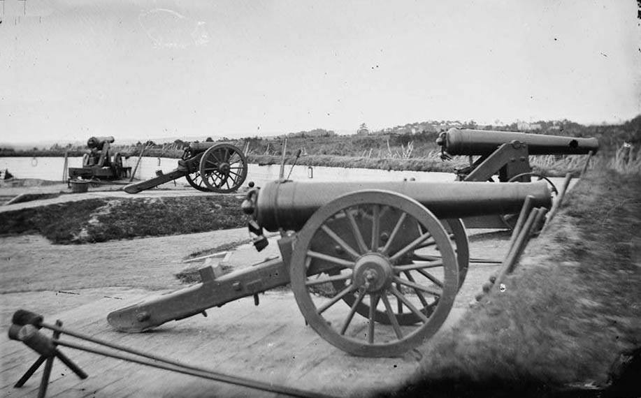 Model 1829 32-pounder seacoast guns in Fort Totten, Washington, D.C., rifled for James projectiles and also called 64-pounder James rifles